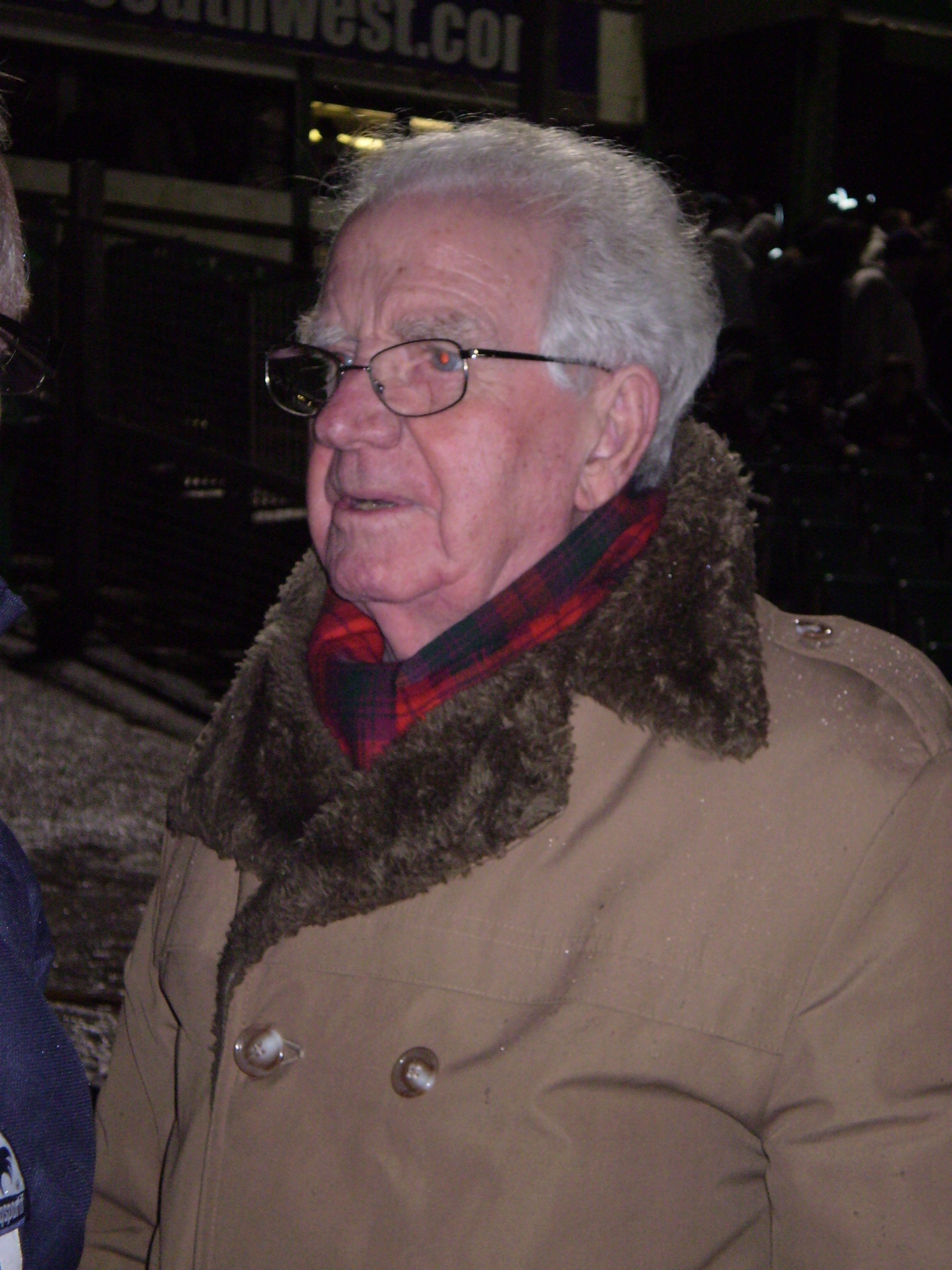 Alex Govan, former Plymouth Argyle F.C. and Birmingham City F.C. footballer, pictured at half-time in the Football League Championship match between the two clubs in December 2008, aged 79